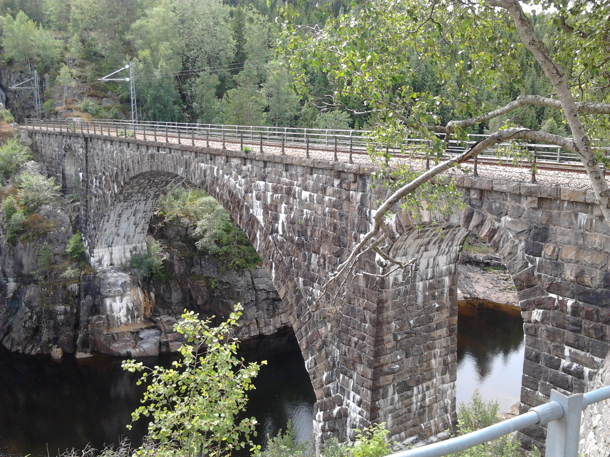 Bøylefoss railway bridge in Bøylefoss Froland, Norway